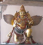 Garuda, the Mount of God Vishnu